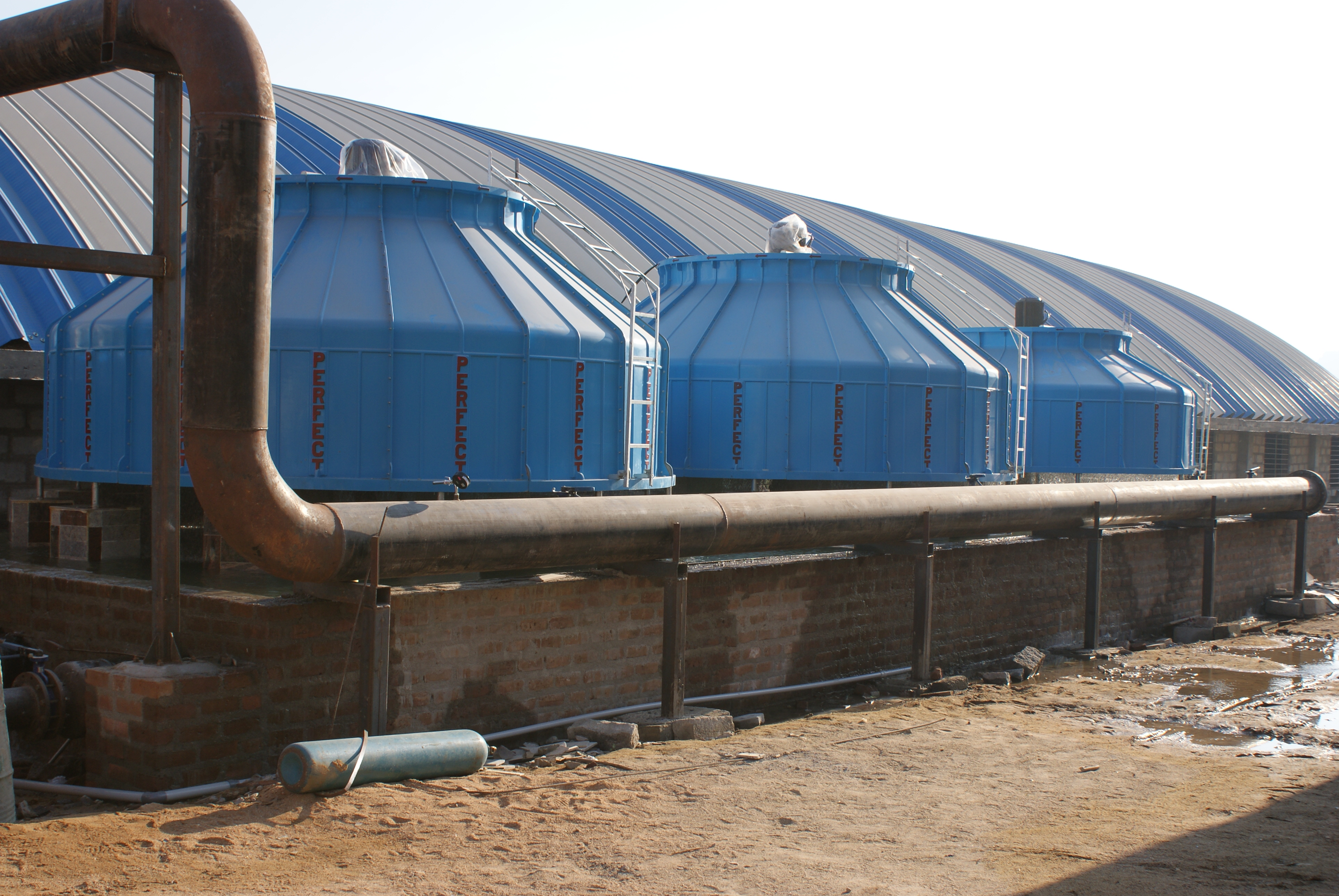 Field Errected Cooling Towers